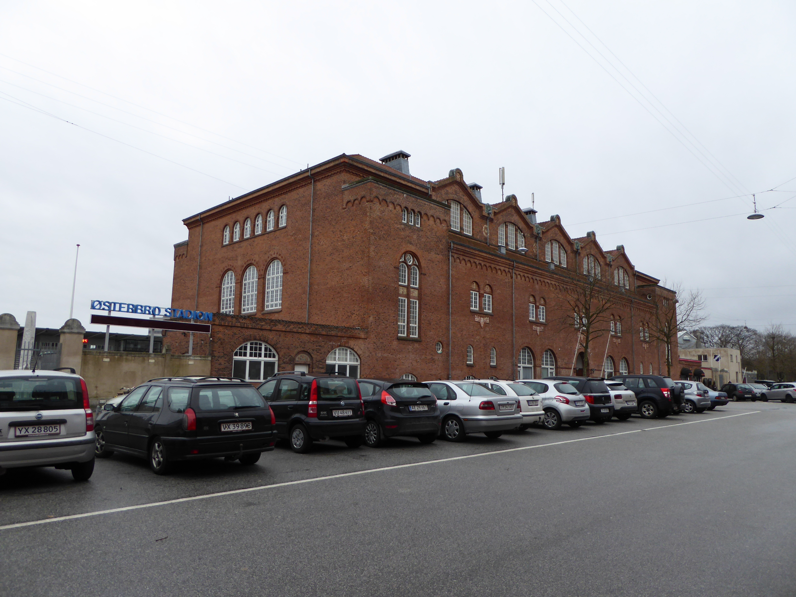 The building Idrætshuset at the square Gunnar Nu Hansens Plads in Østerbro in Copenhagen.